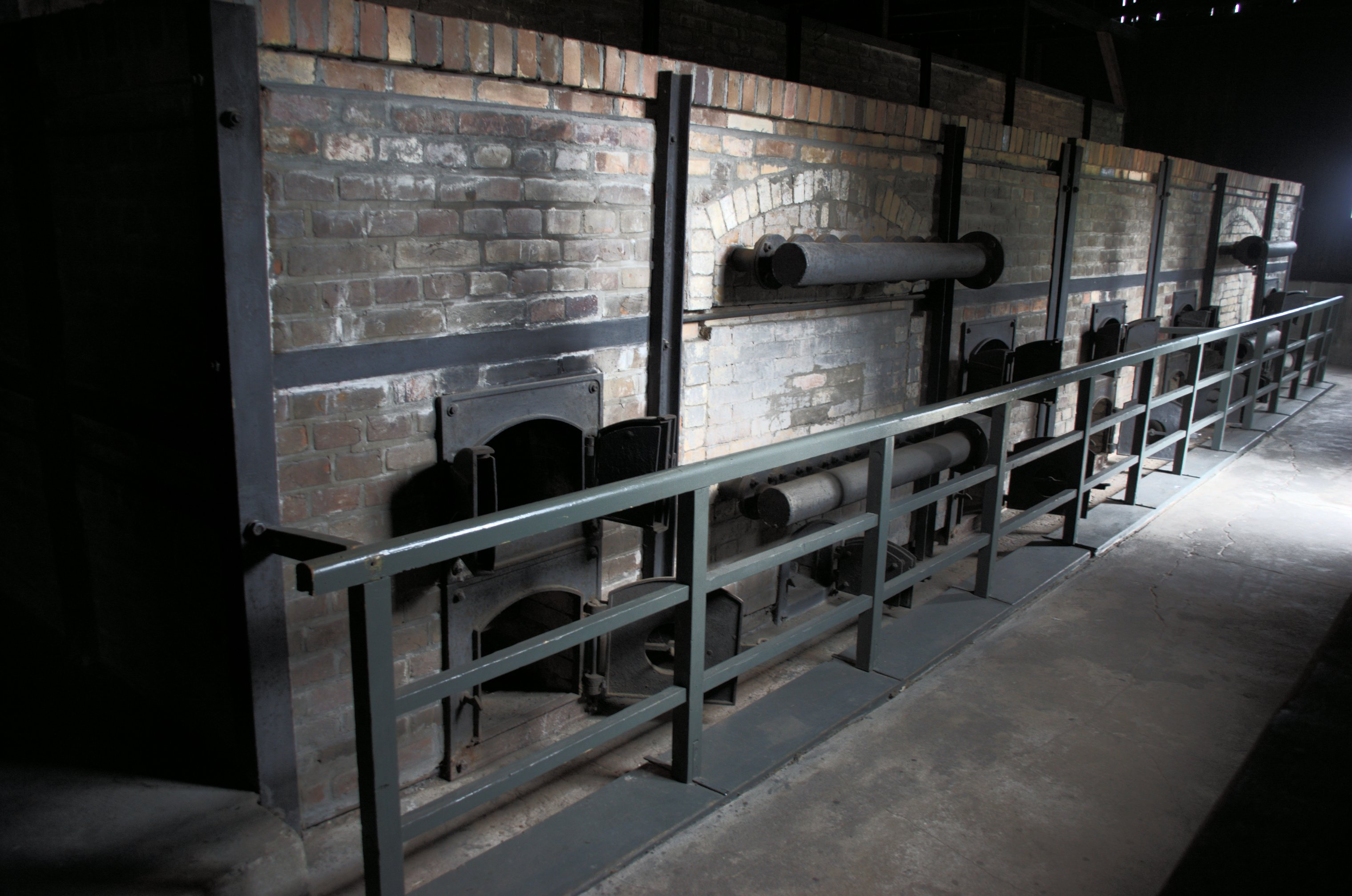 In these ovens the corpses were burt.